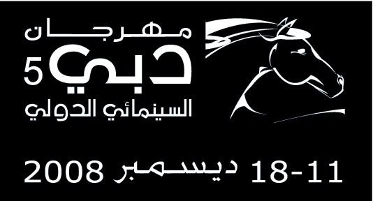 Dubai International Film Festival 2008 Logo